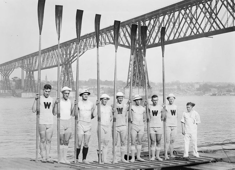 University of Wisconsin varsity sport rowing team on June 11, 1914 at the Poughkeepsie Bridge. Bain News Service,, publisher. WISC. Varsity, 1914 1914. 1 negative : glass ; 5 x 7 in. or smaller. Notes: Title from unverified data provided by the Bain News Service on the negatives or caption cards. Forms part of: George Grantham Bain Collection (Library of Congress). Format: Glass negatives. Repository: Library of Congress, Prints and Photographs Division, Washington, D.C. 20540 USA, General information about the Bain Collection is available at Persistent URL: Call Number: LC-B2- 3098-9